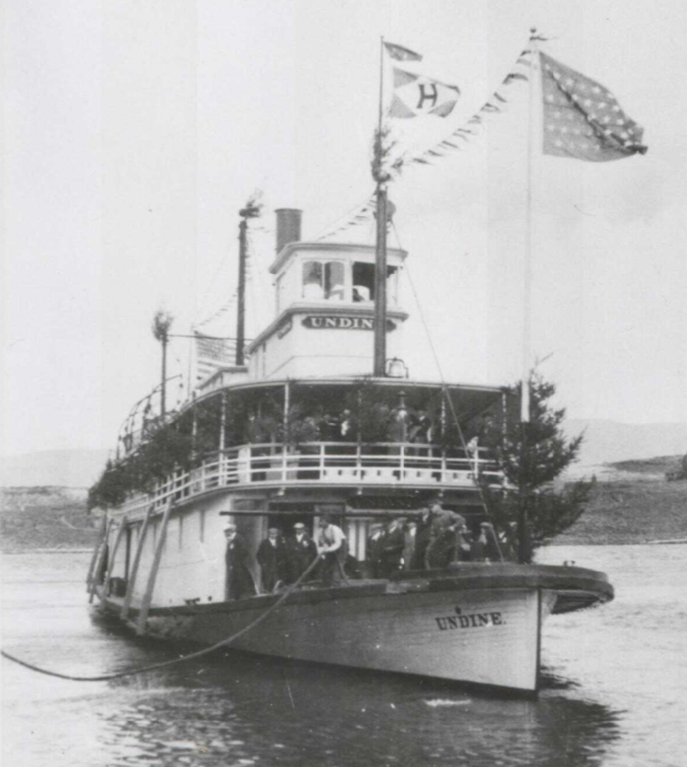 The sternwheeler Undine on the Columbia River en route to the opening of the Celilo Canal, 1915.